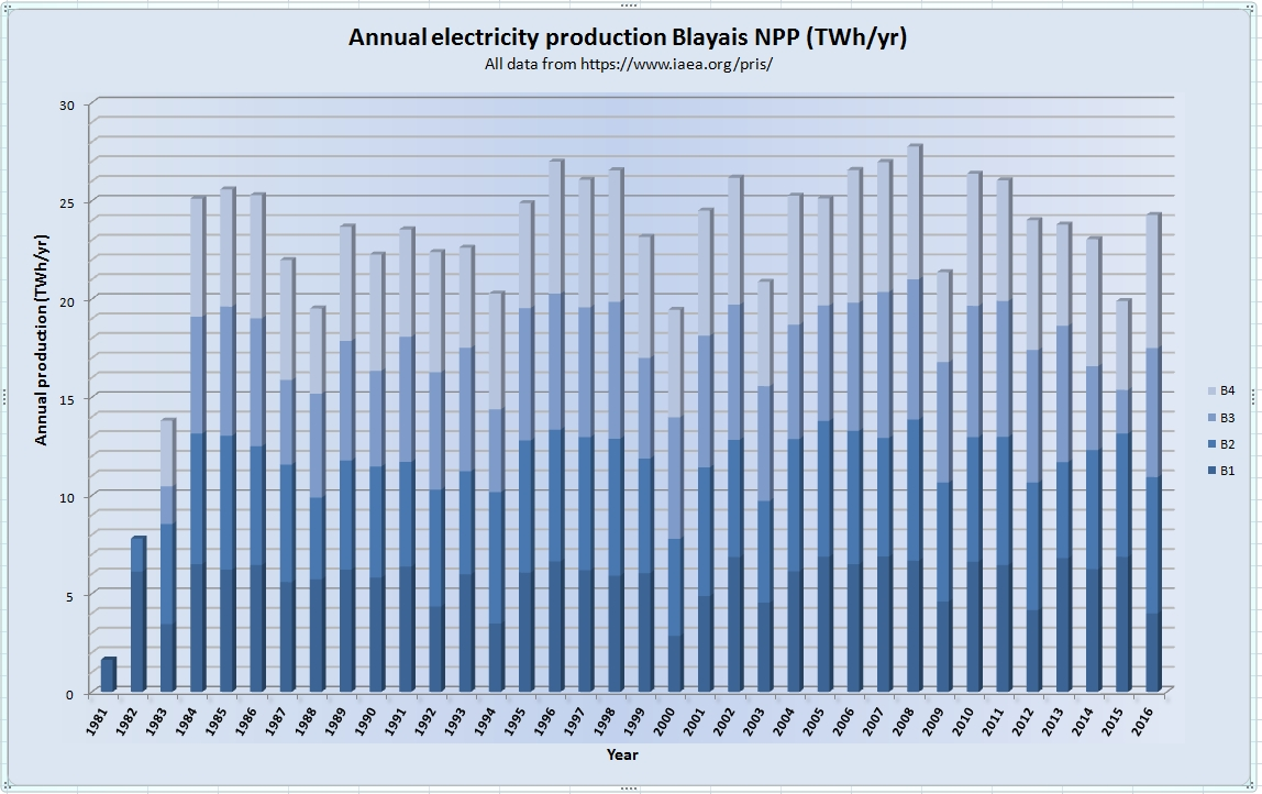 A simple Excel presentation of data from with production for the Blayais NPP 1981-2016